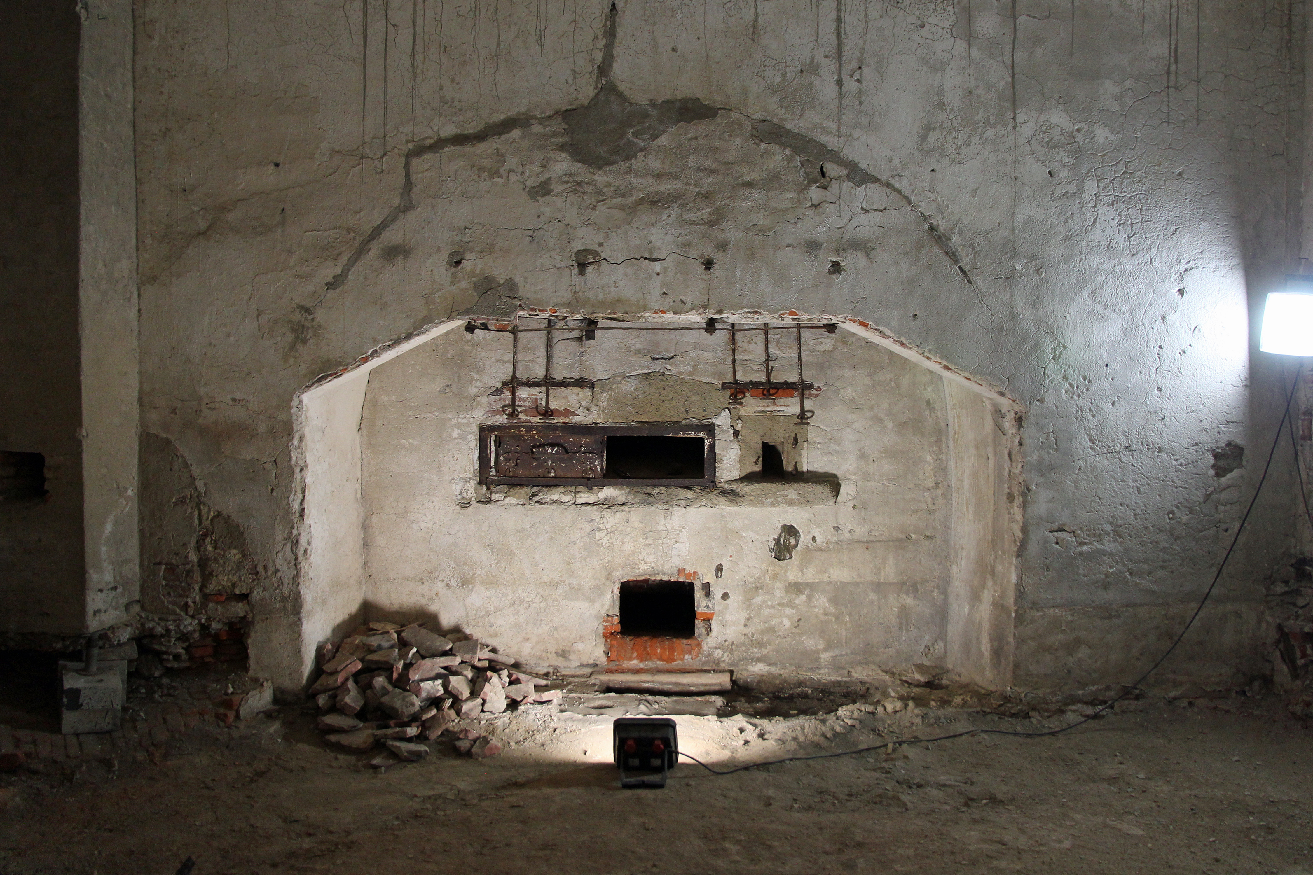 Feste Kaiser Franz in Koblenz